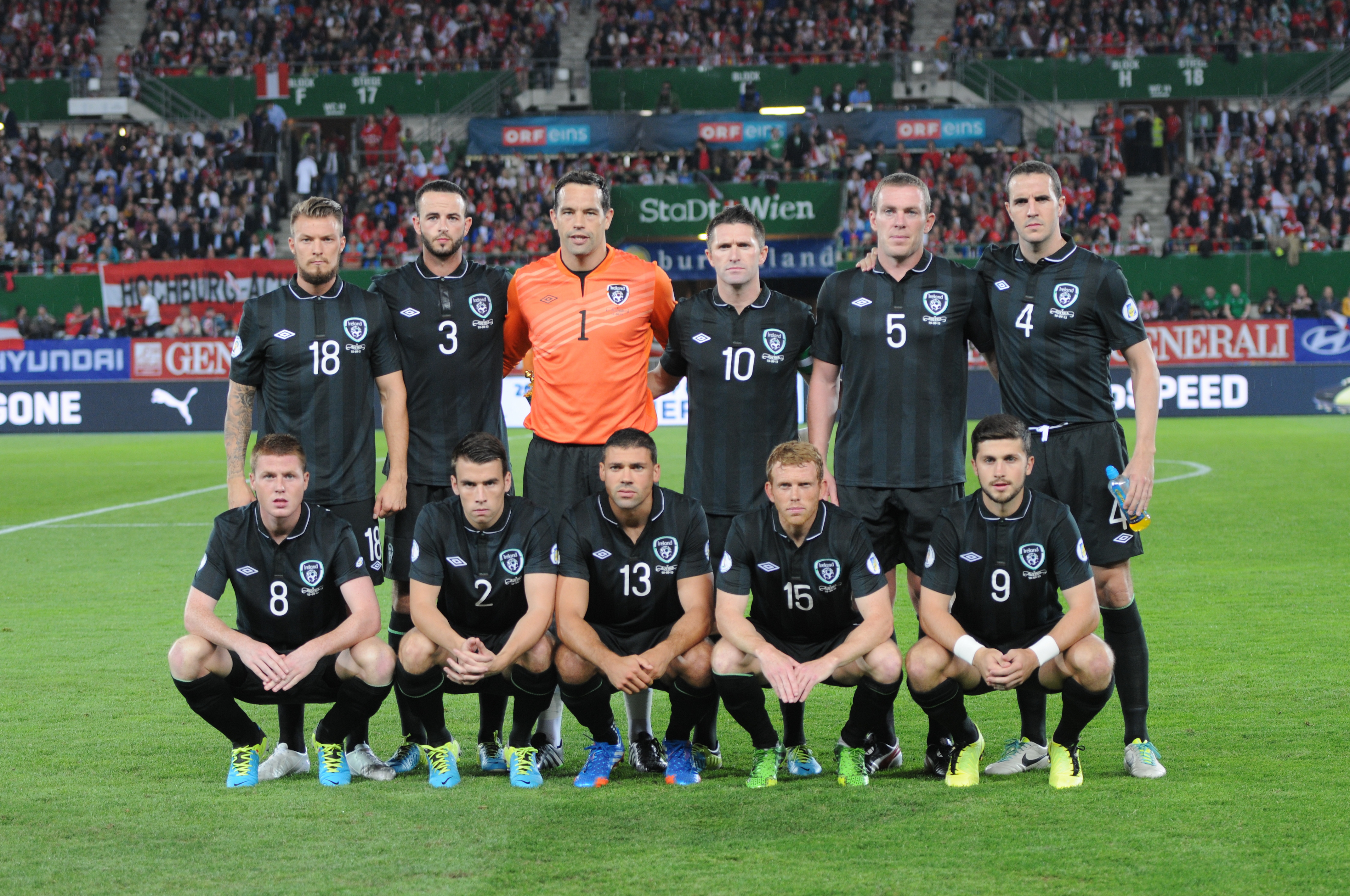 2014 FIFA World Cup qualification (UEFA), Group C: Republic of Ireland national football team at 10. September 2013 before the match against the Austria national football team (0:1) in the Ernst-Happel-Stadion in Vienna The making of this work was supported by Wikimedia Austria. For other files made with the support of Wikimedia Austria, please see the category Supported by Wikimedia Österreich.